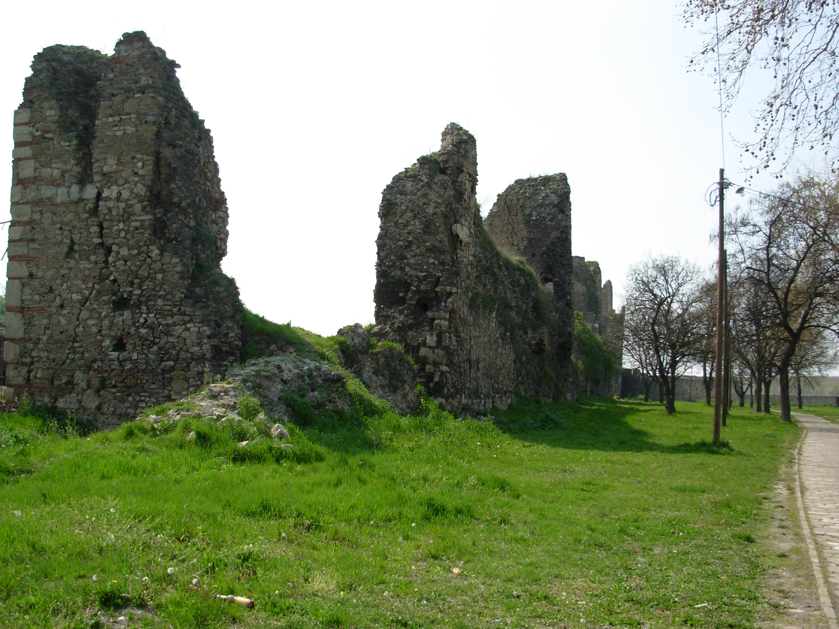 Heavily damaged southwest wall of the big town of Smederevo Fortress.